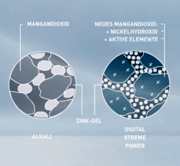 As the first company Panasonic Batteries led the Oxyride-Batterie by a combination of newly developed materials for the cathode (the Plus-Pol): Nickel-Oxyhydroxid, graphite, and a new, technically advanced manganese dioxide. A special "Tablet Mix Control System controls and optimizes the shares of these materials in each battery to increase the discharge capacity.